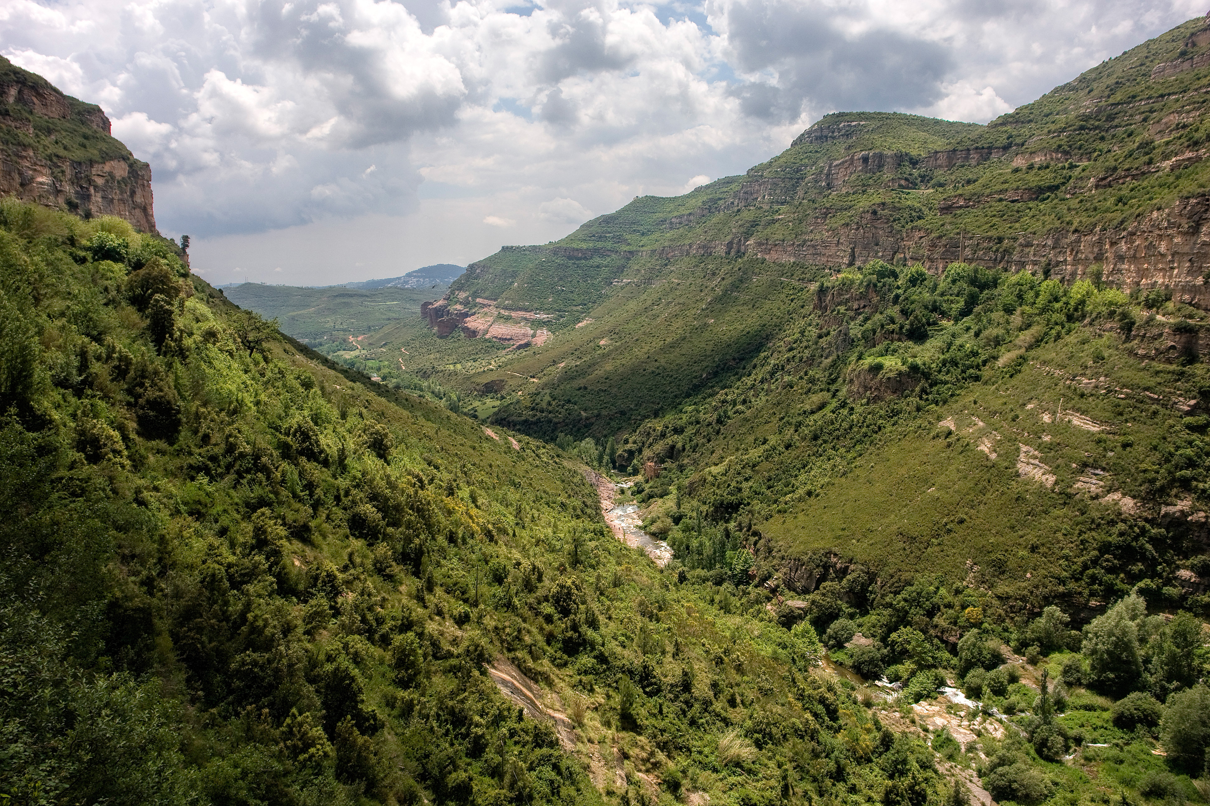 Valley of Sant Miquel, Vallès Oriental This is a a photo of a geologic site or geotope in Catalonia, Spain, with id: IEIGC-350